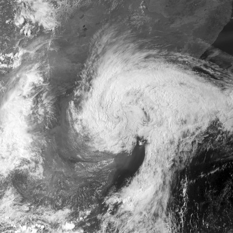 Satellite image of Tropical Storm Meari near landfall in China on June 26, 2011